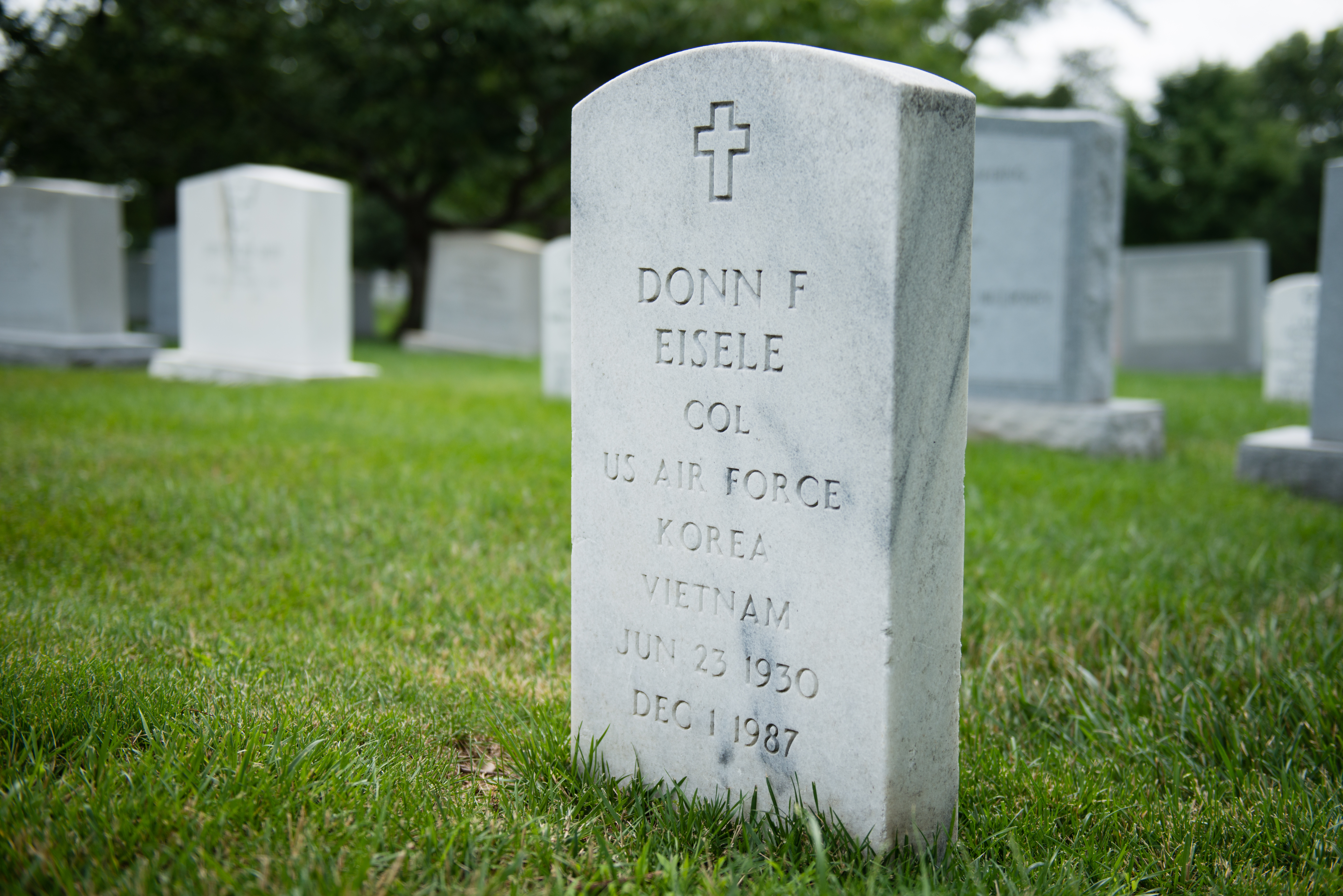 Col. Donn F. Eisele, U.S. Air Force, Was interred Dec. 9, 1987. Eisele, former Apollo 7 astronaut, died of a heart attack on Dec. 1, 1987 in Tokyo. He was buried in Arlington National Cemetery’s Section 3, Grave 2503-G-1. (U.S. Army photo by Rachel Larue/released)